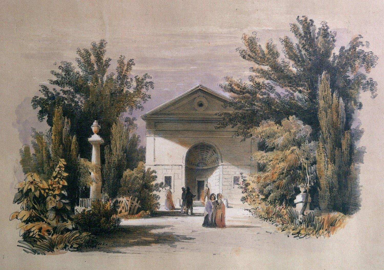 The Anglican Chapel of St. George the Martyr, in Lisbon, Portugal, built in 1822 and burnt down in 1886.